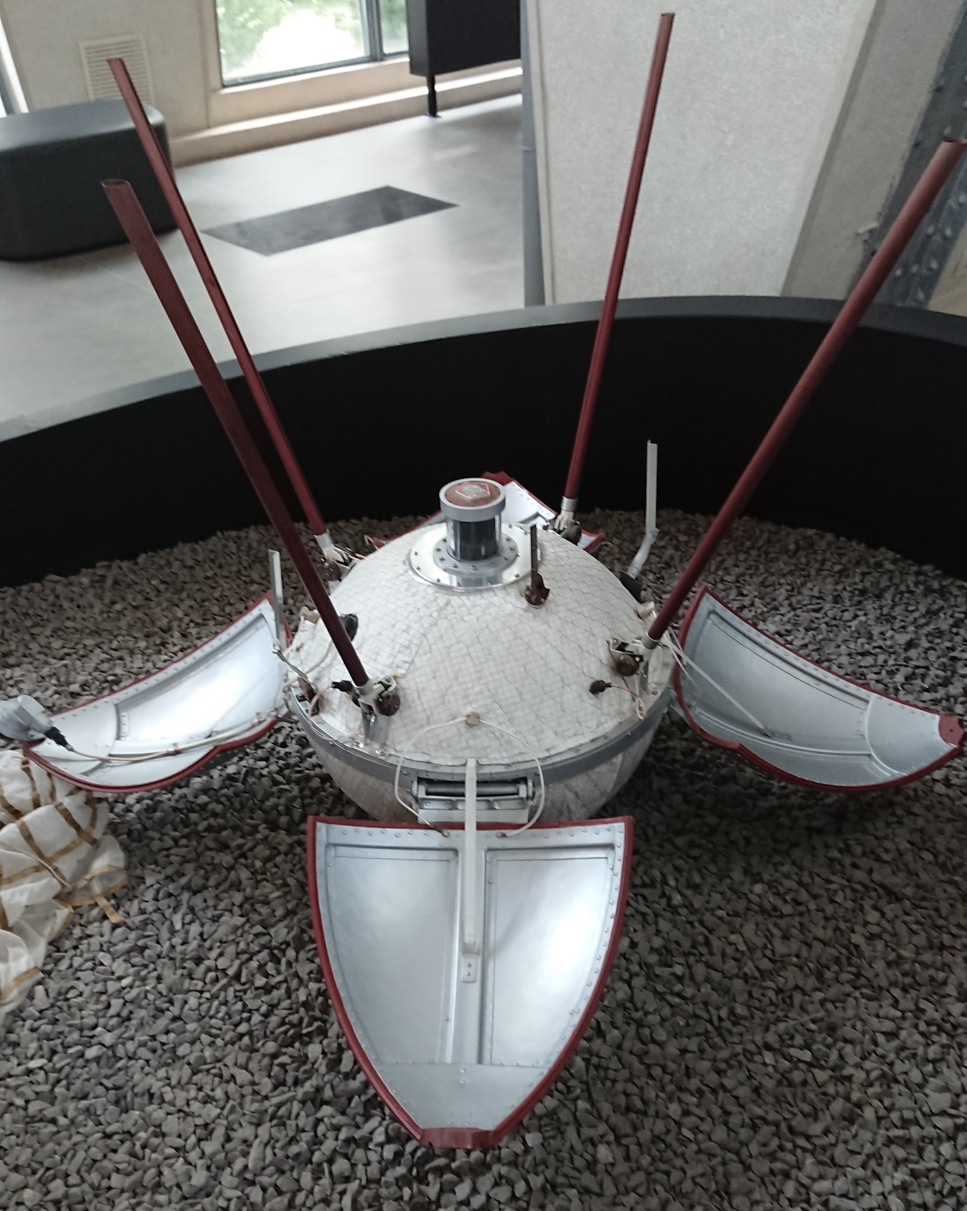 Luna-9 Automatic interplanetary station. Model 1:1. Russia, Moscow, BDNKh, Pavilion № 32 "Cosmos".